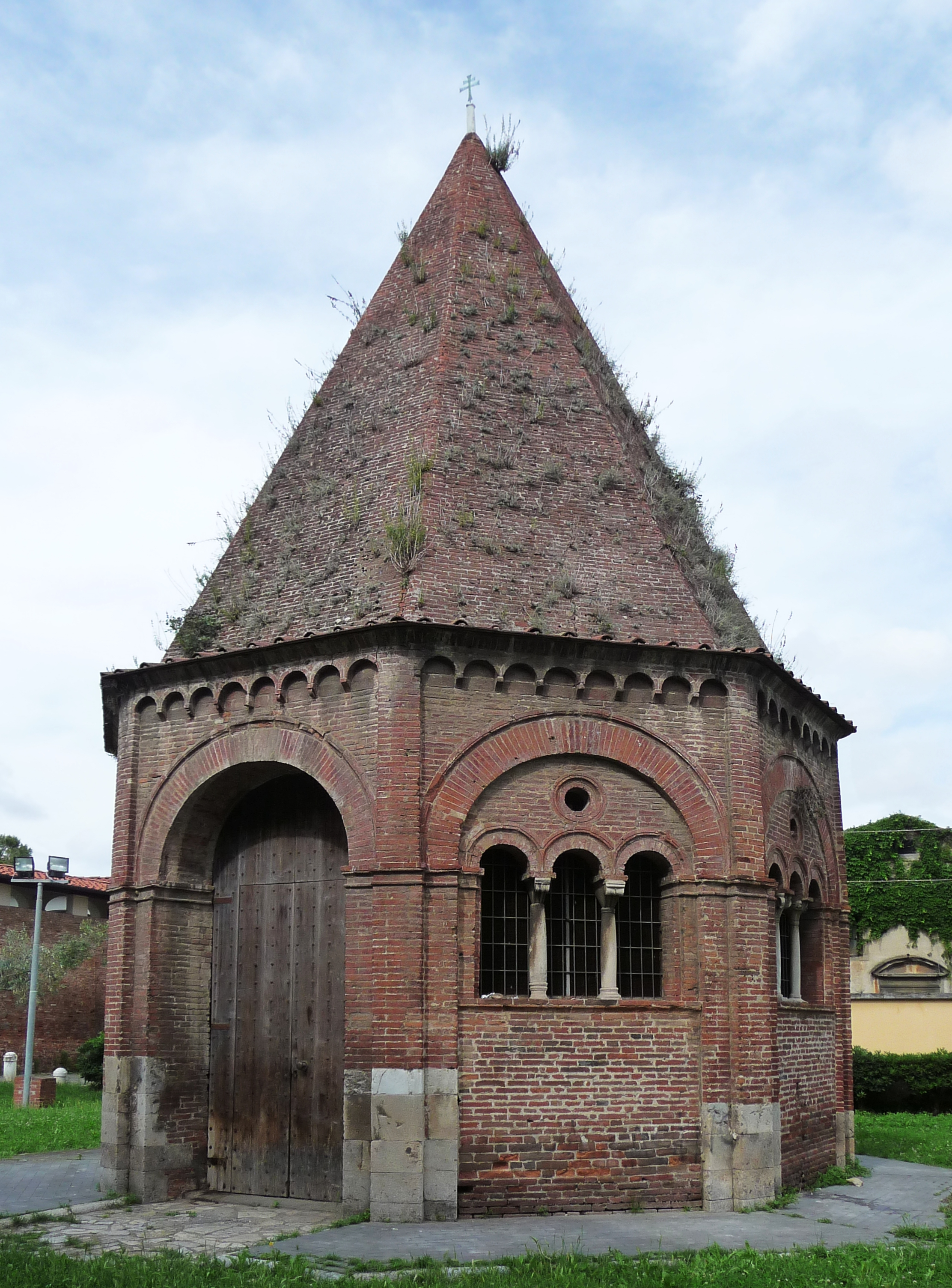 Cappella di Sant'Agata, Pisa, Italy